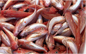 Beifang